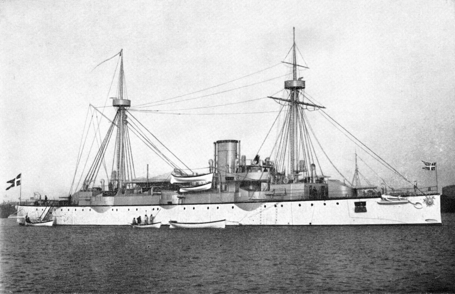 Danish Cruiser Valkyrien in the Far East 1899-1900